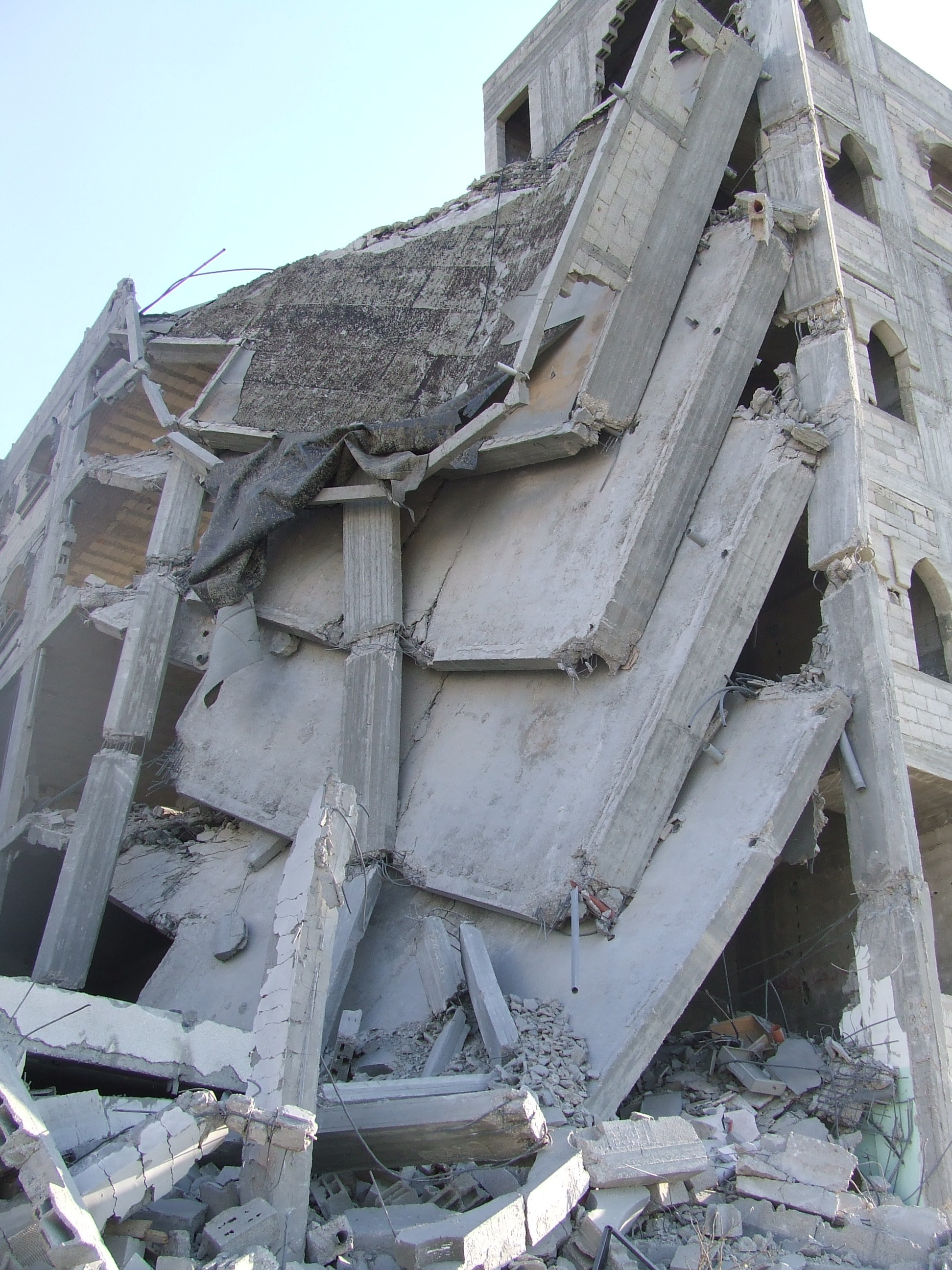 Photos taken from UNRWA refugee shelters, school and mosque in Rafah, Gaza 12th January 2009 - Photos taken from UNRWA refugee shelters, school and mosque in Rafah, Gaza - Photos taken by ISM Gaza Strip 12th January 2009 - Photos taken by the International 12th January 2009 - Photos from Rafah UNRWA refugee shelters, school and mosque. Photos taken by the International Solidarity Movement